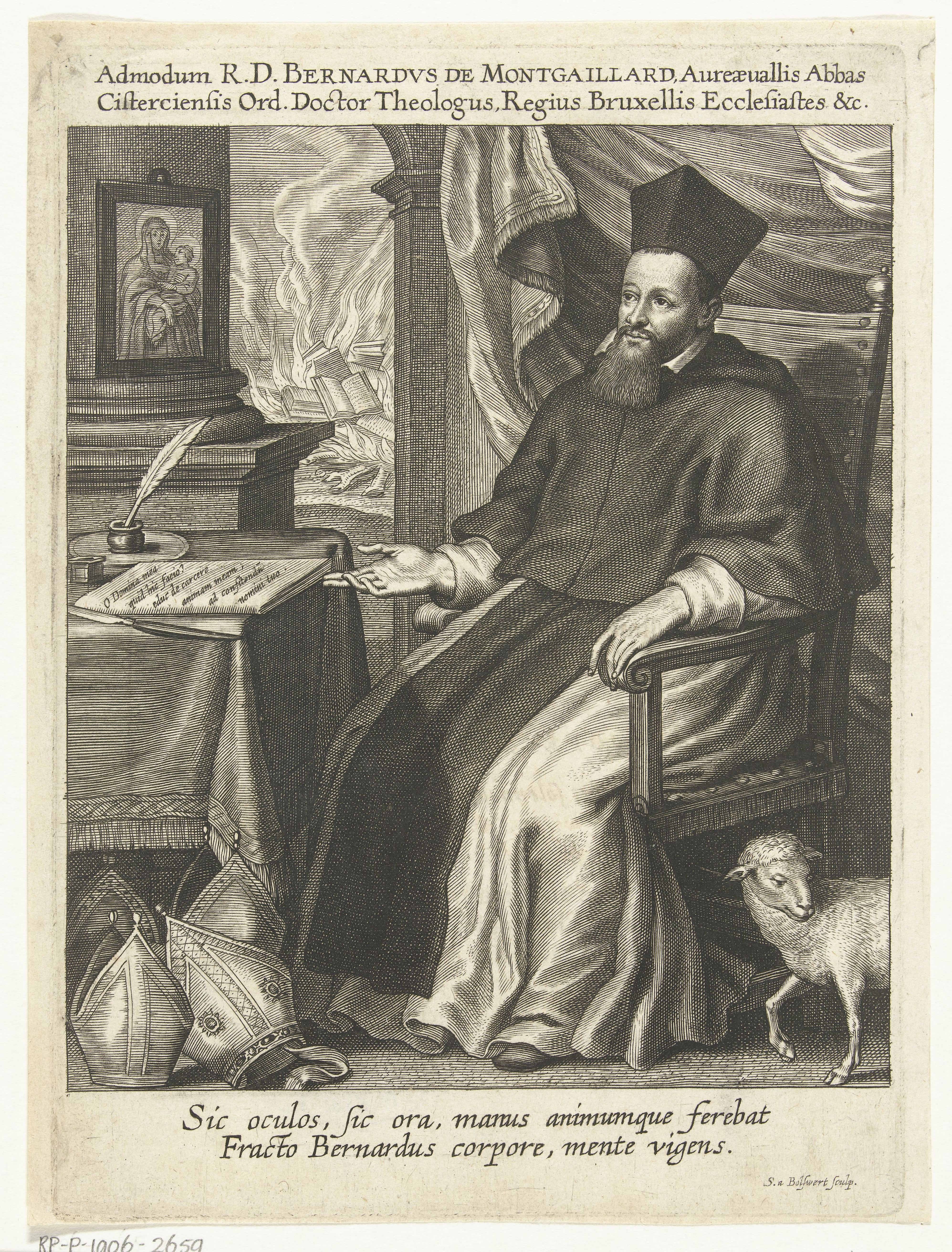 Print portrait of Bernard de Montgaillard (1563-1628)